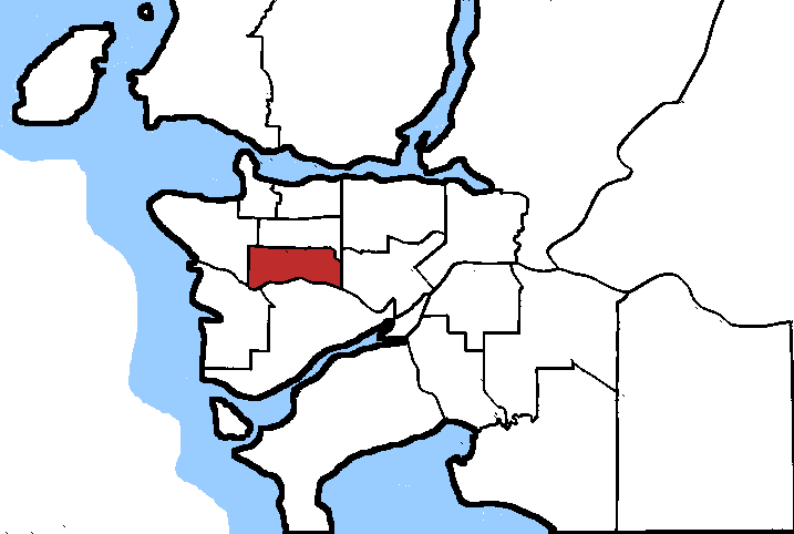 Map of the Vancouver South electoral district. Based on Earl Andrew's maps, created by SimonP.